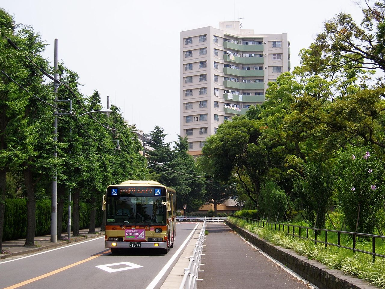 Kanagawa Chuo Kotsu To100 Mitsubishi PJ-MP35JM at Dream heights